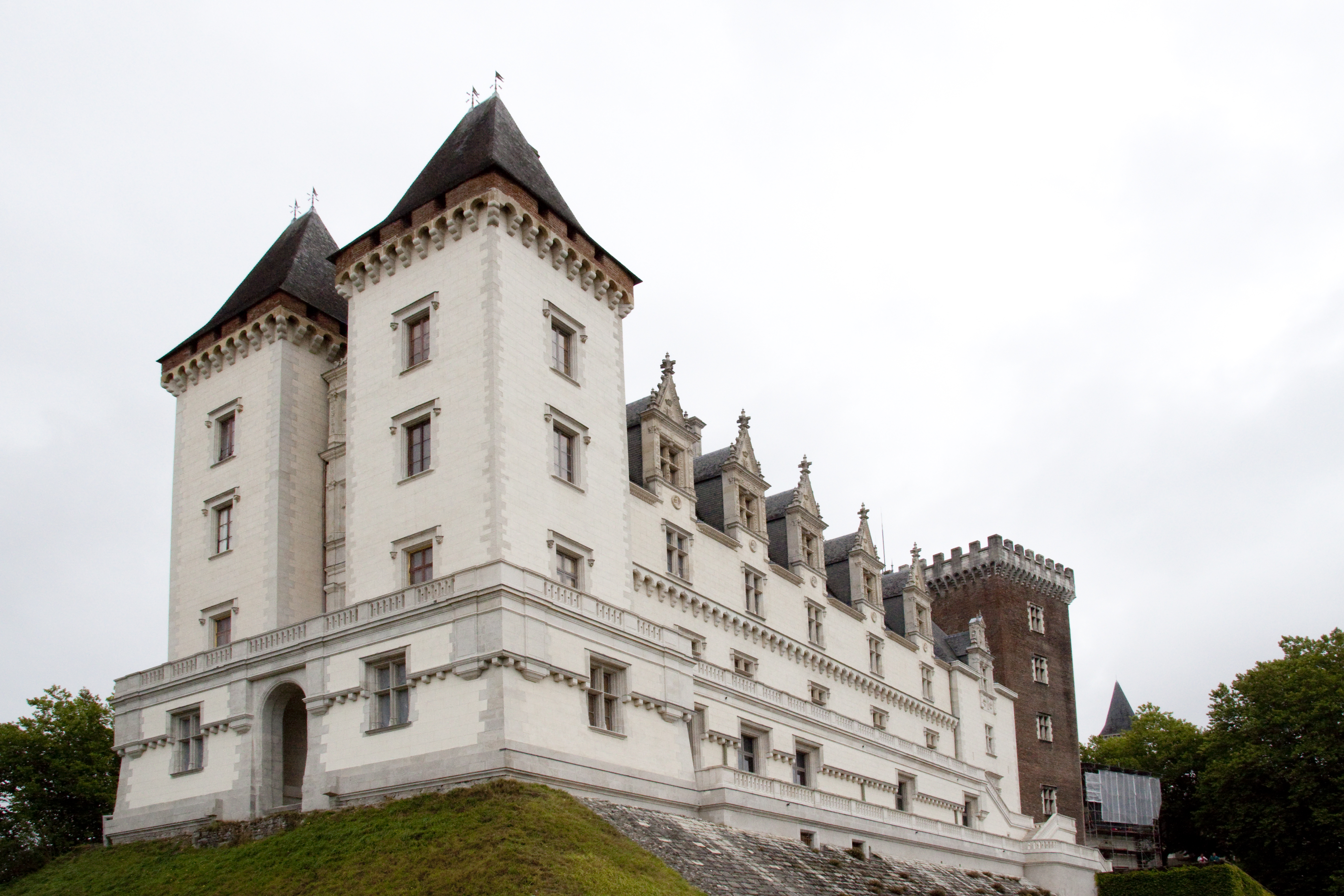 Pau Castle